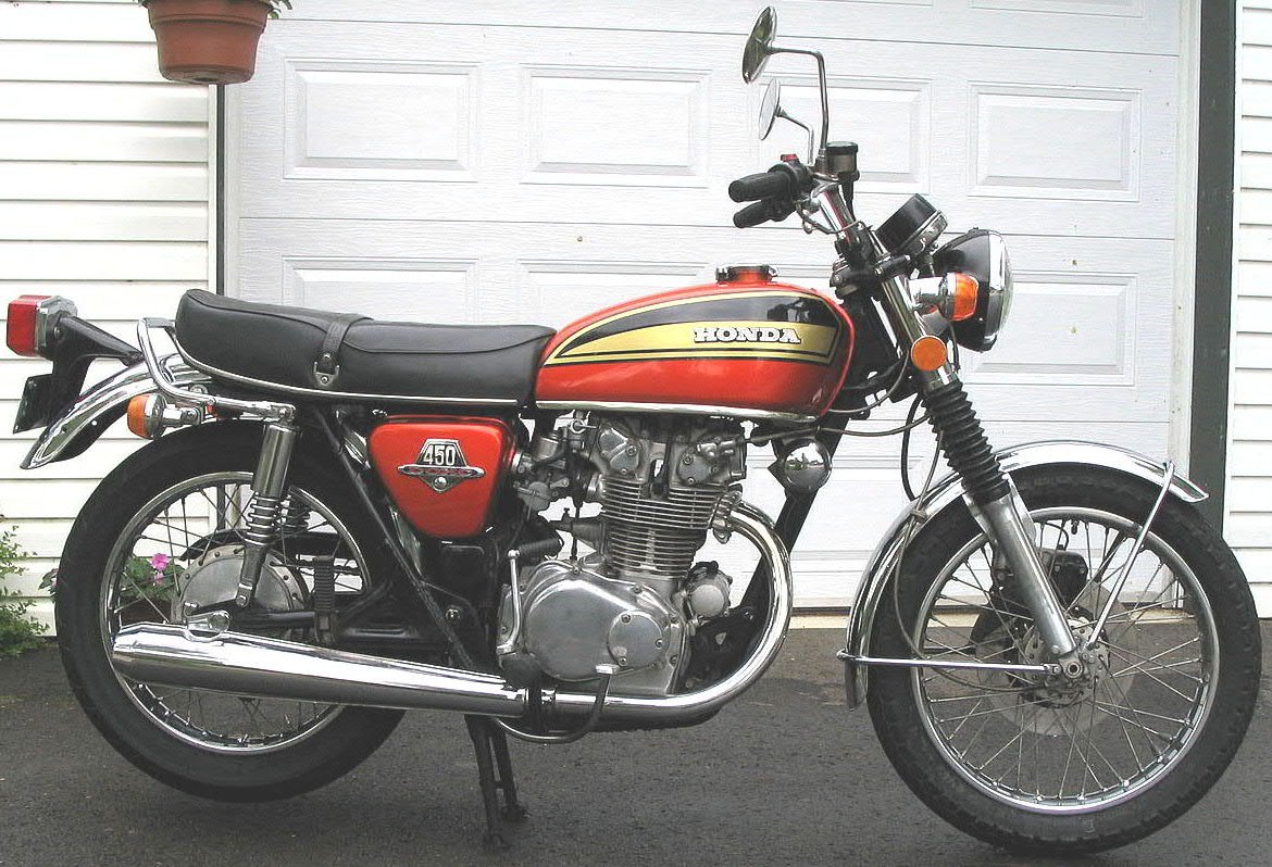 1974 Honda CB450 K7 right side view. The bike is entirely original, not modified nor altered in any way.